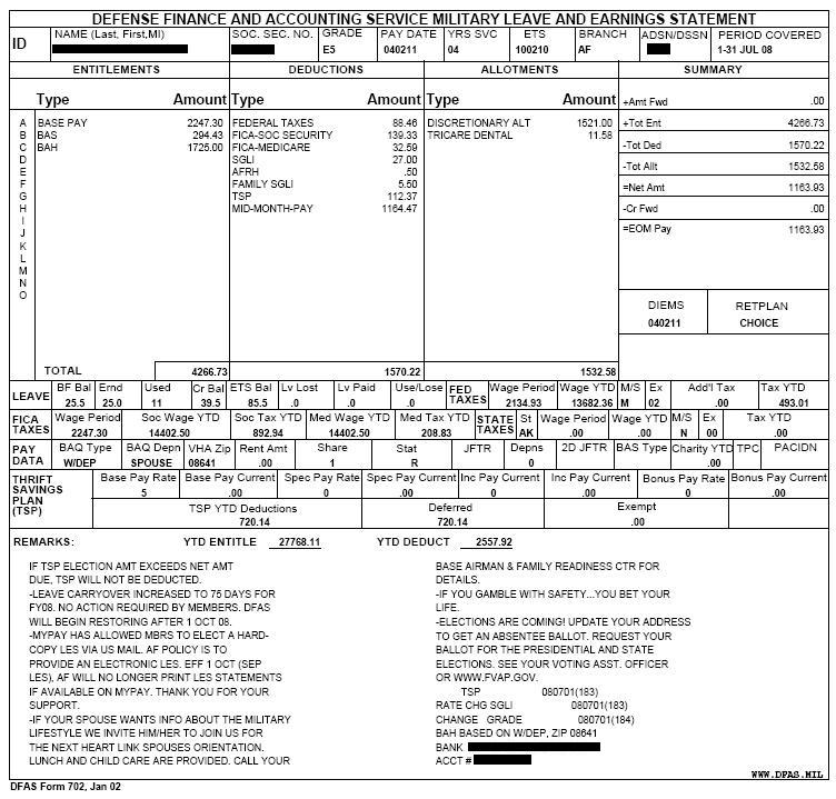 My own LES, taken from